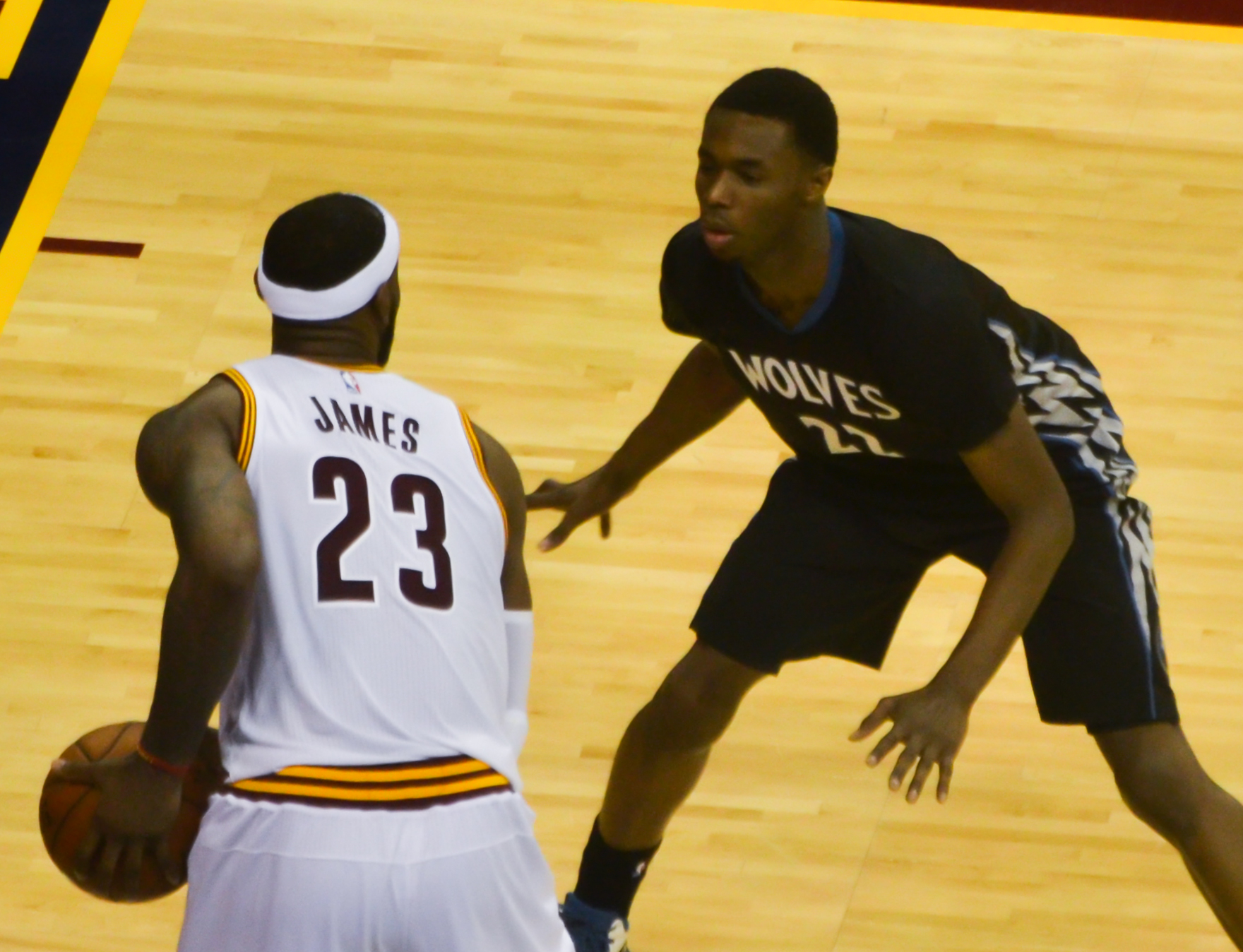 LeBron James of the Cleveland Cavaliers and Andrew Wiggins of the Minnesota Timberwolves